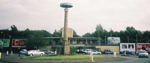 The front of Rochdale railway station, September 2007